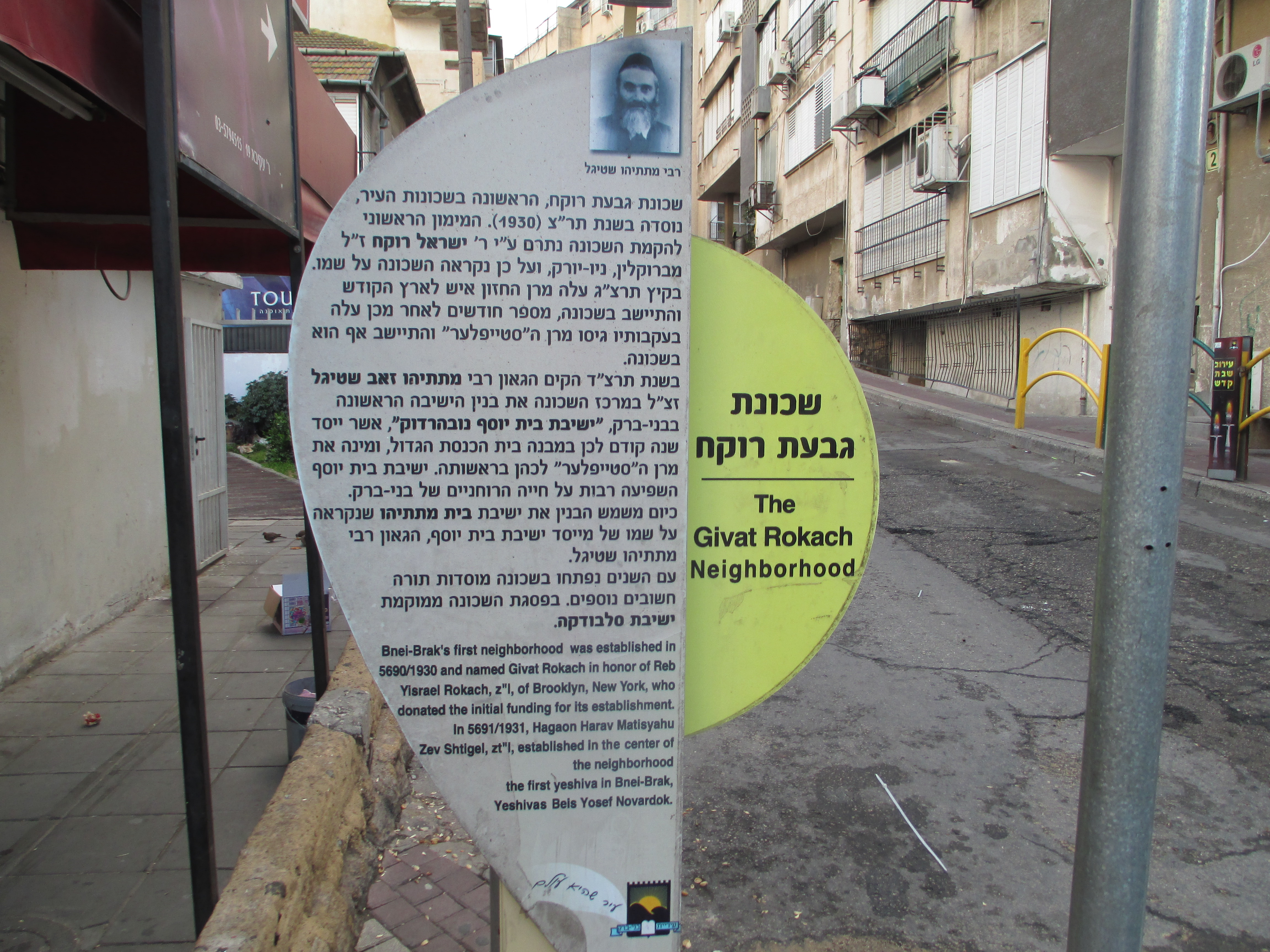 plaque at the entrance to giv'at rokach neighborhood in bnei brak, israel שלט הסבר בכניסה לשכונת גבעת רוקח בבני ברק